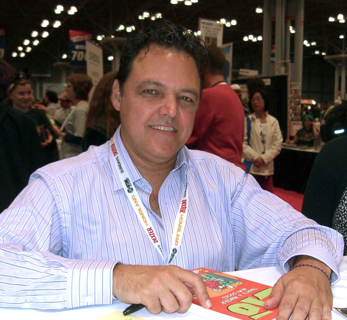 Comics creator Mark Tatulli on Day 4 of the 2012 New York Comic Con, Sunday October 14, 2012 at the Jacob K. Javits Convention Center in Manhattan. This photo was created by Luigi Novi. It is not in the public domain, and use of this file outside of the licensing terms is a copyright violation.